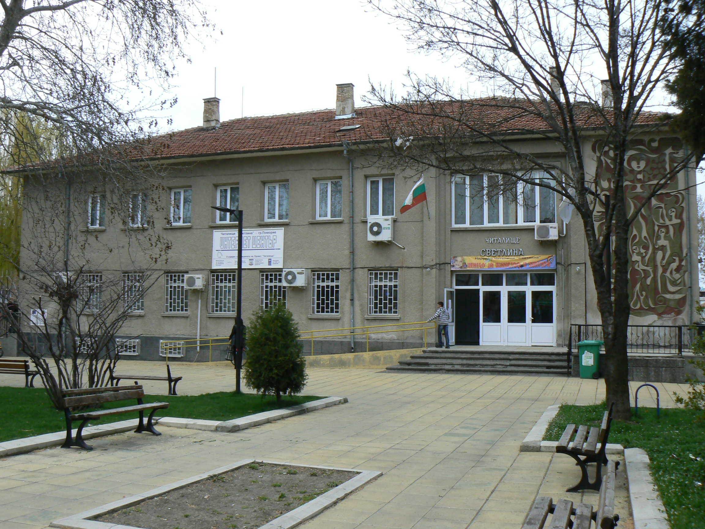 Library "Svetlina" in Pomorie, Bulgaria